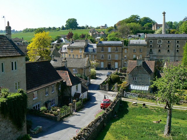 Freshford, Somerset A charming village where, if it weren't for the cars, time might have stood still. Scenes from the famous Ealing comedy 'The Titfield Thunderbolt' were filmed here notably from St Peter's church, which occupies a commanding position in the village.